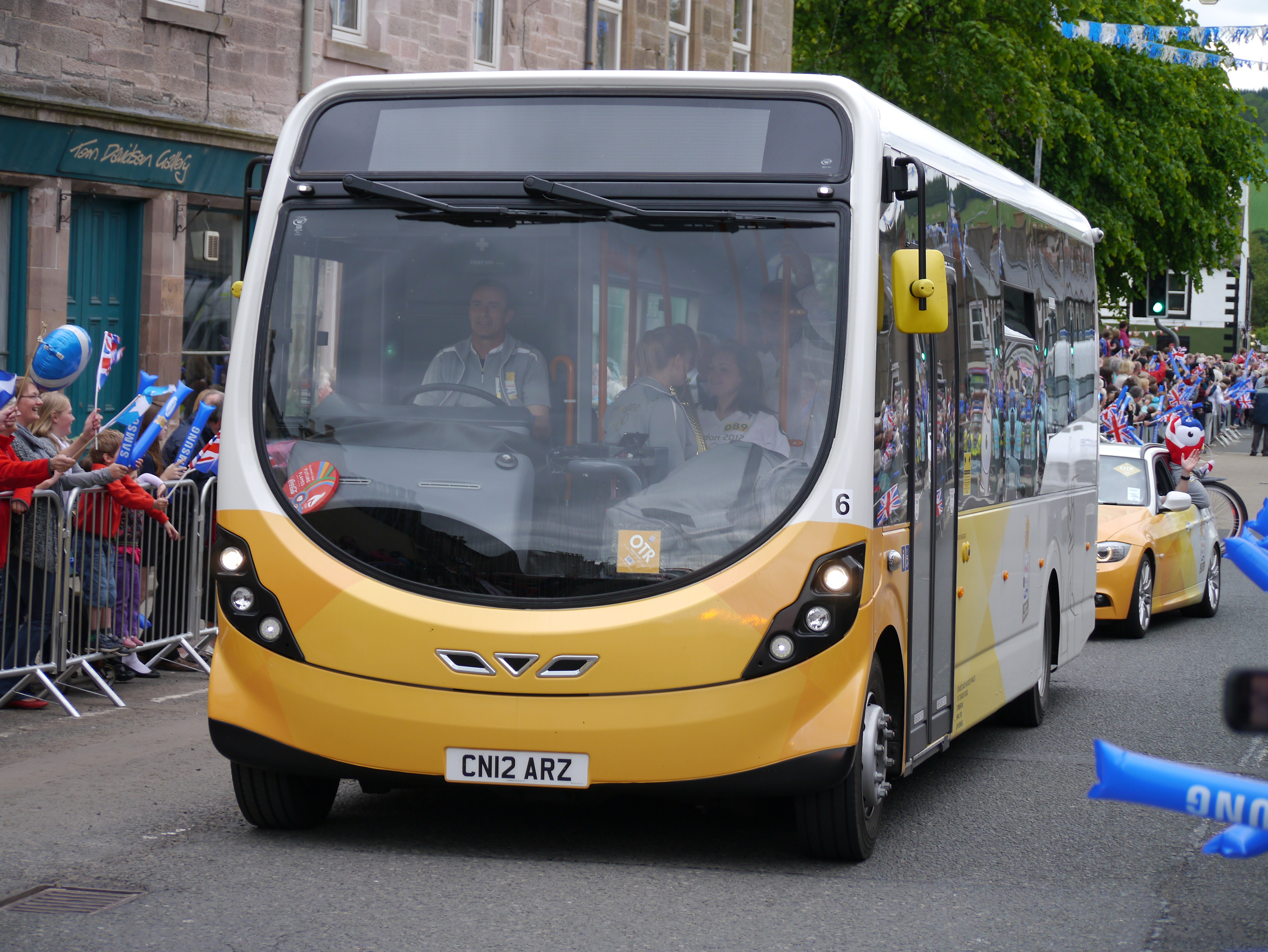 2012 Olympic Torch Relay Through Earlston - Image #4, CTYPE html PUBLIC "-//W3C//DTD XHTML 1.0 Strict//EN" " 2012 Olympic Torch Relay Through Earlston - Image #4:: OS grid NT5738 :: Geograph Britain and Ireland - photograph every grid square! Geograph - photograph every grid square NT5738 : 2012 Olympic Torch Relay Through Earlston - Image #4 near to Earlston, Scottish Borders, Great Britain.